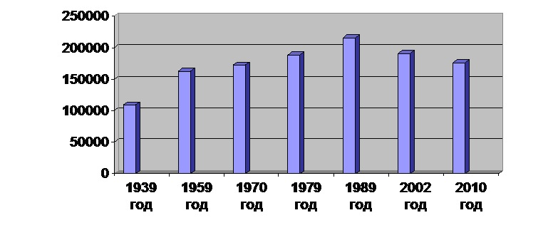 Population of Jewish Autonomous Region by years